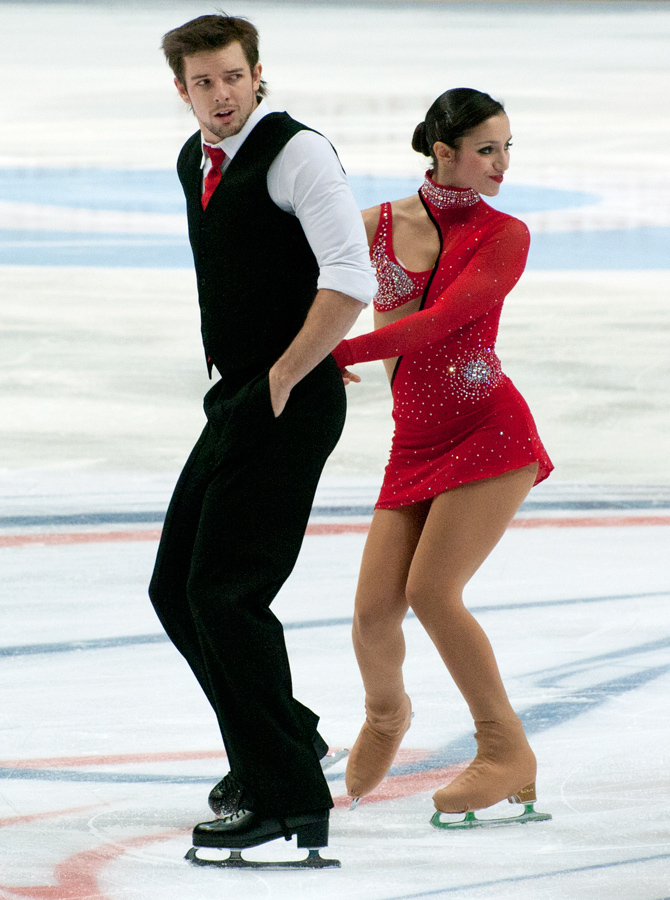 2011 Cup of Russia, short program.